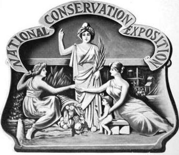 The official seal of the National Conservation Exposition, held in Knoxville, Tennessee, USA, in 1913.